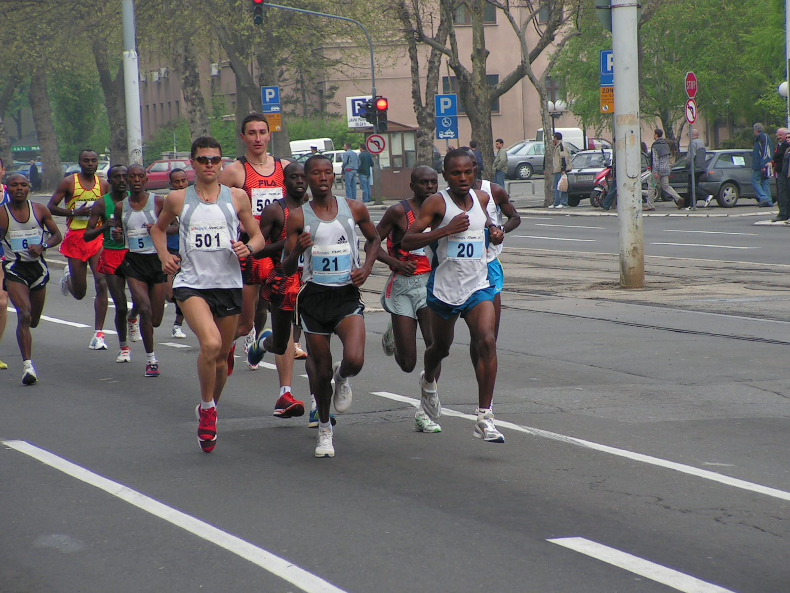 Belgrade Maraton